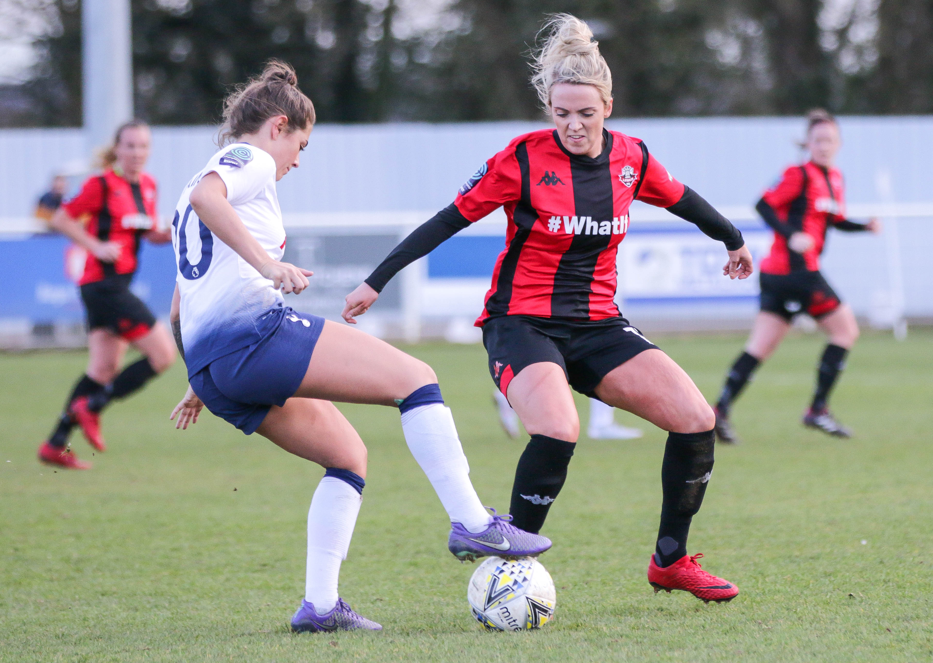 Coral Jade Haines and Avilla Bergin